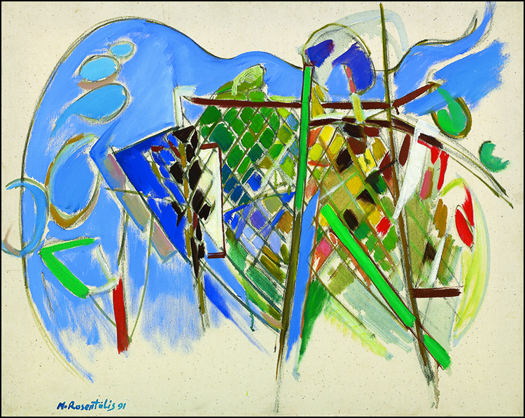 Painting of Moshe Rosenthalis.